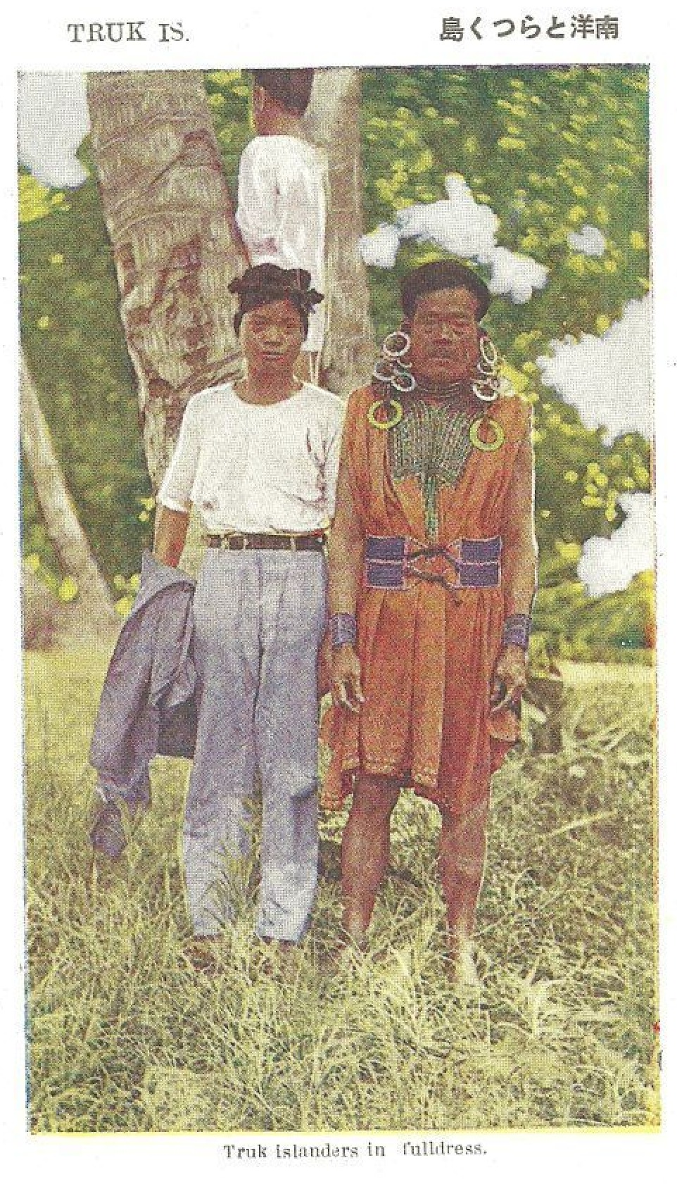 Scan of a postcard featuring English and Japanese language. English label reads "Truk Island" ... "Truk Islanders in full dress". Japanese label reads 'Pacific Ocean ... something I can't make out ... Island', but the name does not match the Japanese listed as equivalent on the English Wikipedia 'Truk' or 'Truk Lagoon' articles. Perhaps someone can help with that. I assume it's similar to the English, anyway. Postcard probably made in 1930s, definitely after 1914 and before 1944. Shows three males, two in the foreground, one up a tree in the background. Foreground left and rear people are dressed in modern clothing. Foreground right is a traditionally dressed Truk Islander, an older male. Traditional dress includes earrings, belt, sleeveless textile pullover, bracelets.